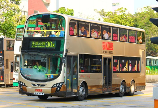 Wright Eclipse Gemini 2 bodied Volvo B9TL (3-axle, AVBWU119, reg. PX 554, 12m, built 2010) in Hong Kong, China. KMB Route 30X.中文（香港）: KMB AVBWU119 PX554@30X.